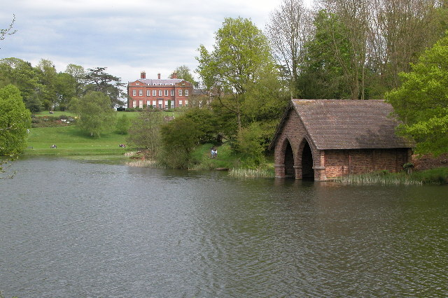 Dudmaston Hall. View across the lake to the boathouse and Dudmaston Hall.